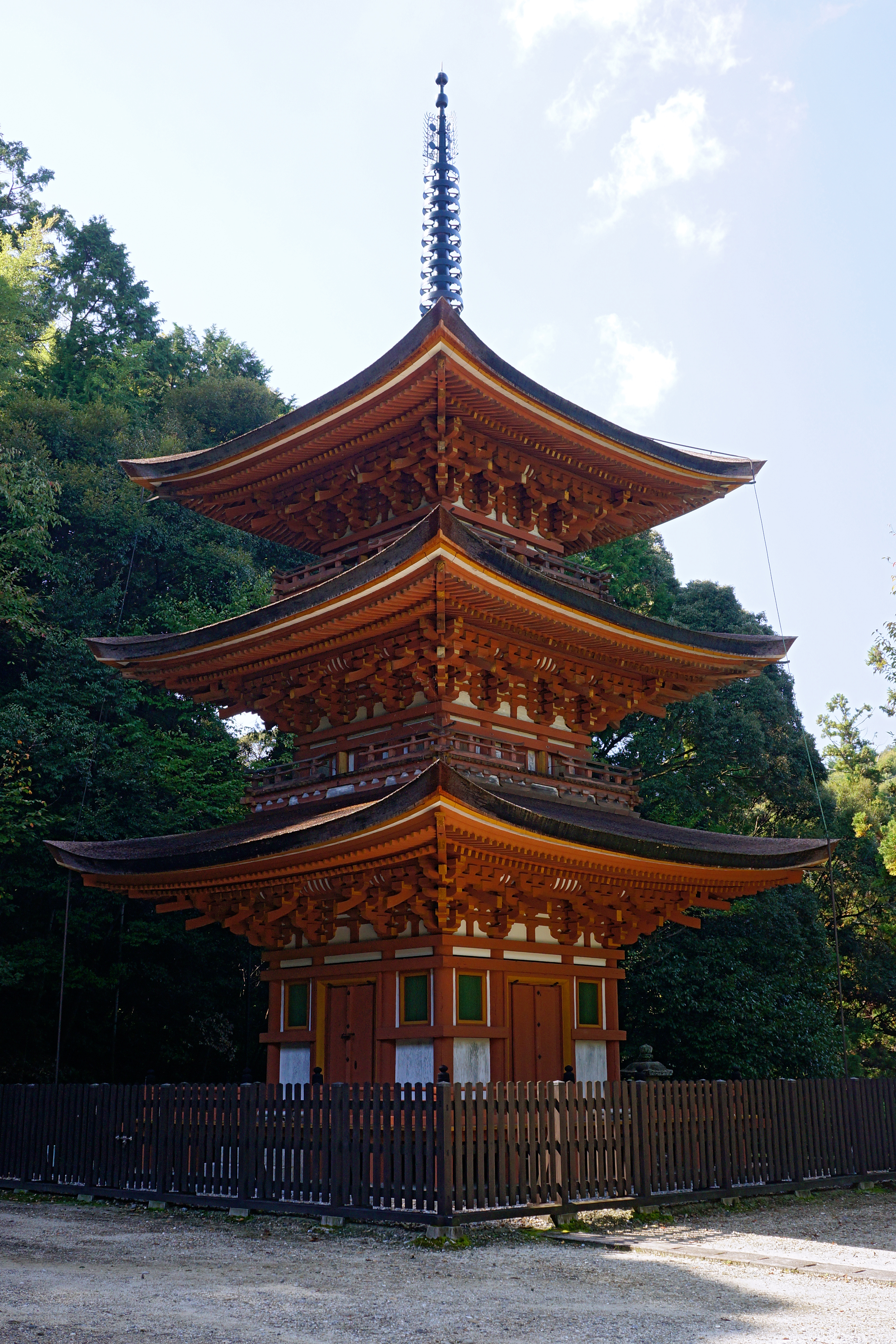 Ryōsen-ji in Nara, Nara prefecture, Japan.